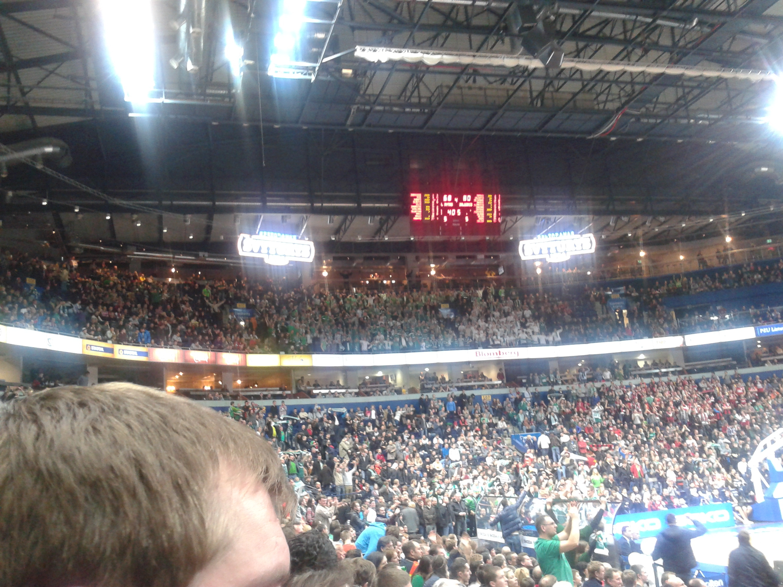 Žalgiris fans during the LKL game against Lietuvos Rytas in Siemens Arena.